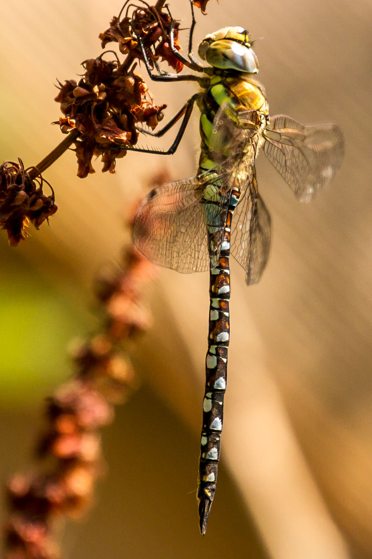 A migrant hawker dragonfly